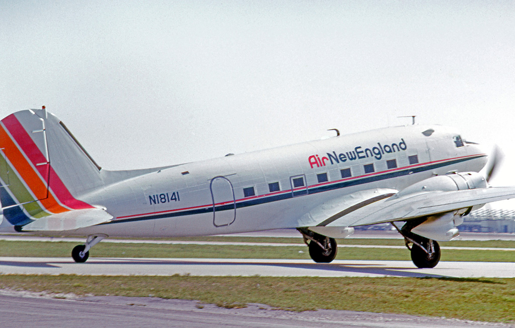 Douglas DC-3 N18141 of Air New England at Miami International airport in 1974